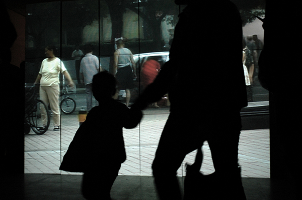 Image of the videoinstallation Próspera at MARCO Vigo, by Carme Nogueira 2008